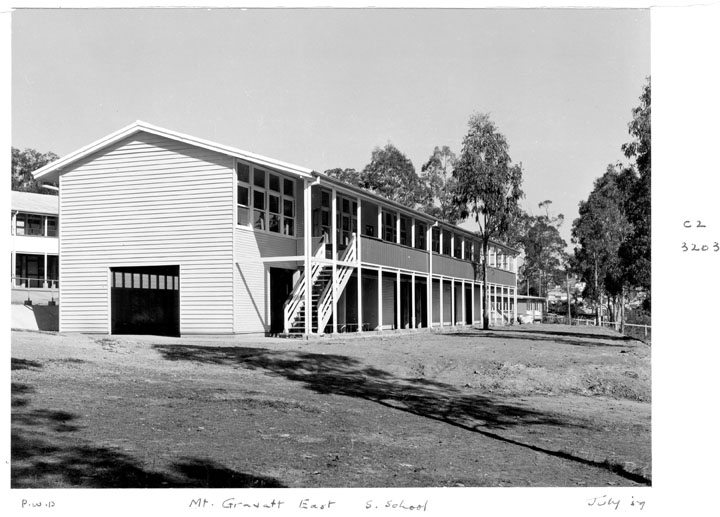 Mount Gravatt East State School - Brisbane. (Original photo caption makes reference to Public Works Department)